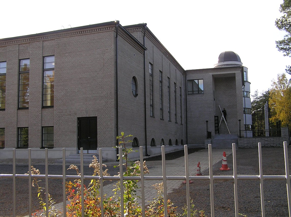 Nõmme Gümnaasium in Tallinn